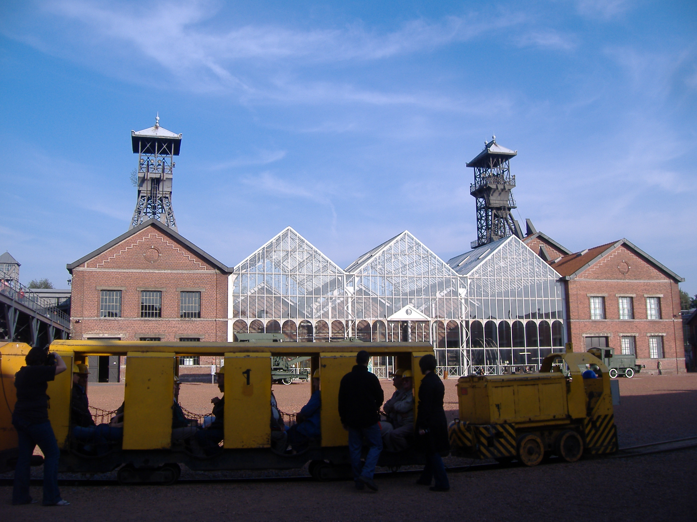 Centre historique minier de Lewarde, North of France . Former coal mine.